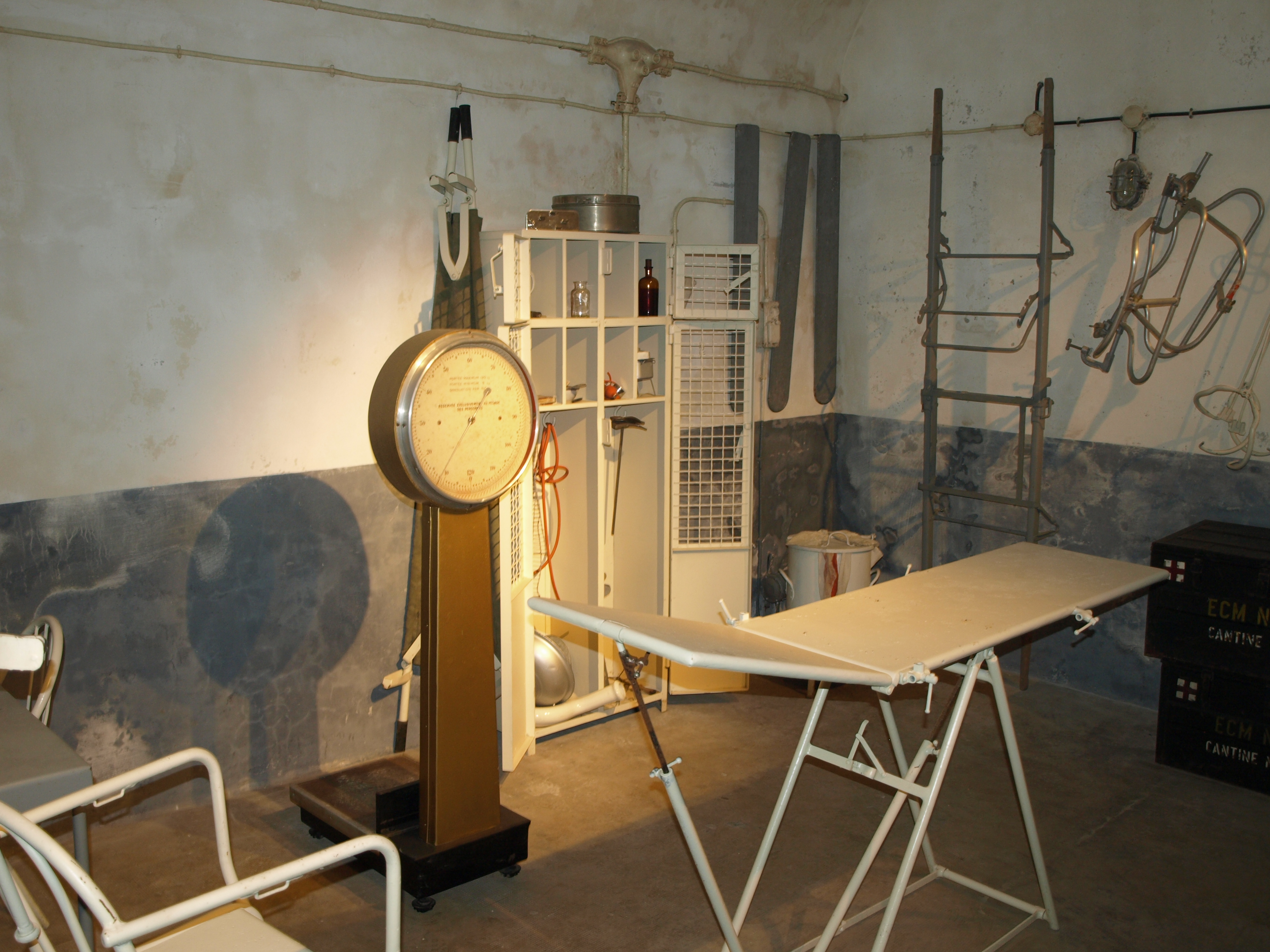 Fortress Simserhof in the Maginot-Line.